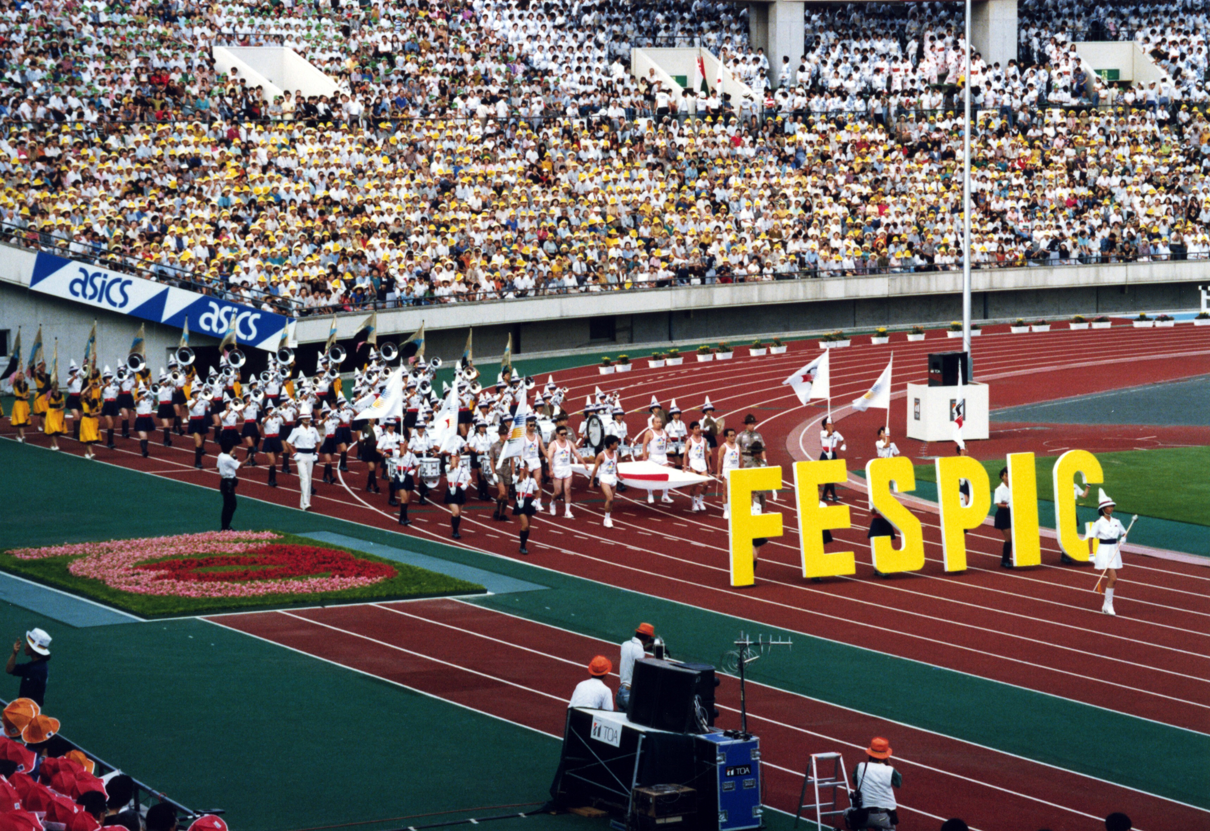 Kobe FESPIC Opening March